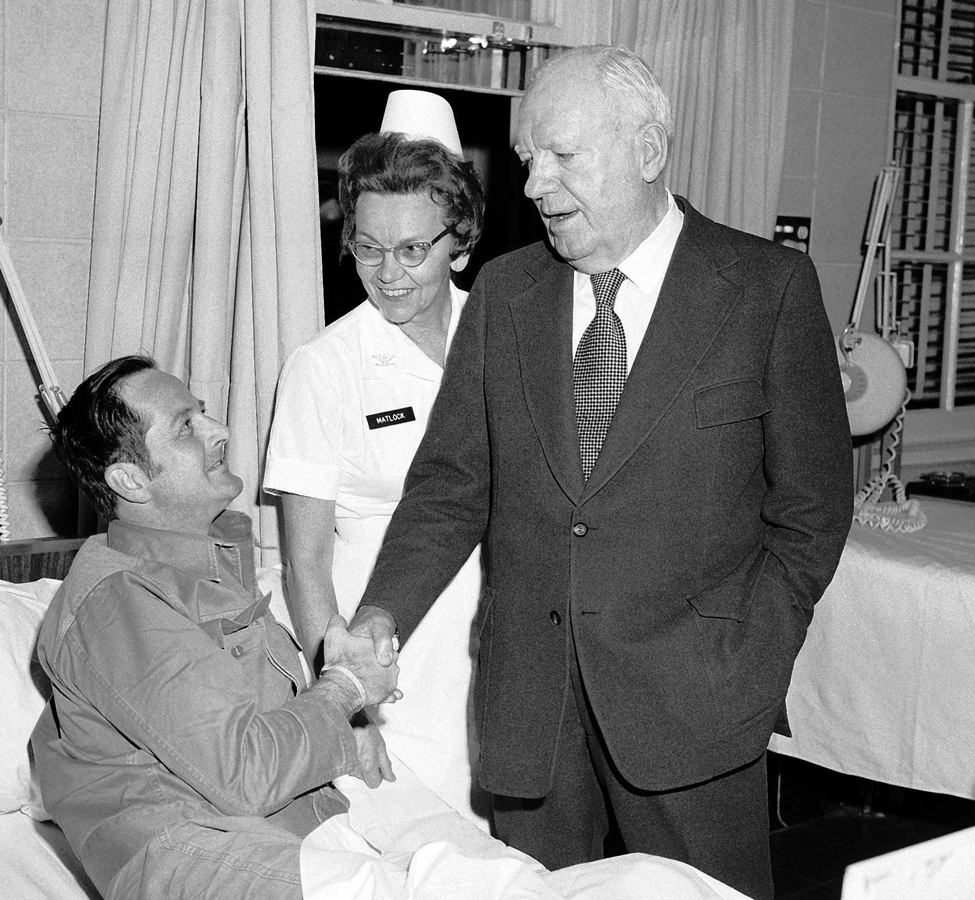 Actor Pat O'Brien shakes a patients hand at Fitzsimons General Hospital.